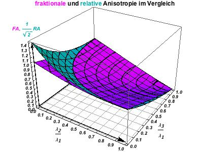 Fractional and relative Anisotropy compared